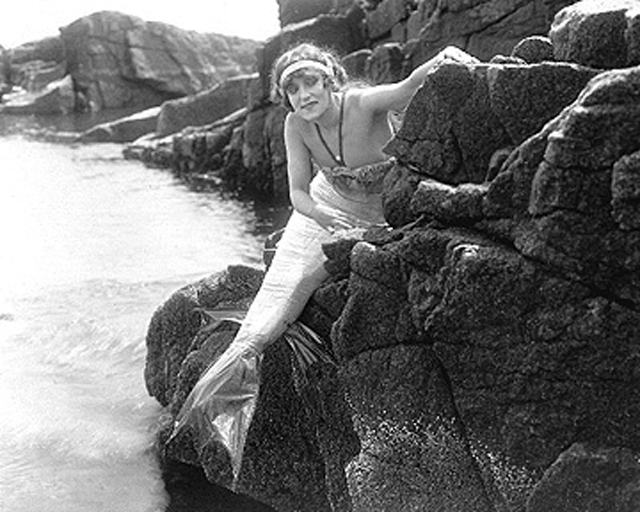 Annette Kellerman, in mermaid costume in role of "Merrilla, the Queen of the Sea", looks around some rocks on a sea-shore. From 1918 film Queen of the Sea.